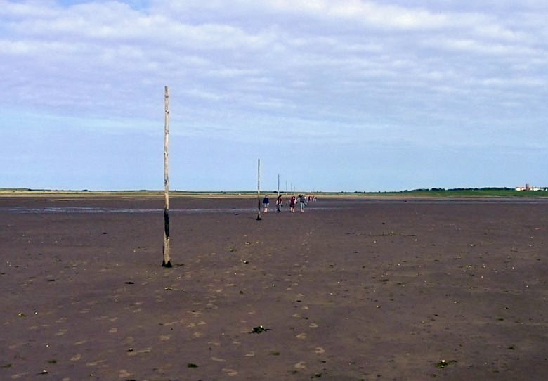 A group of students crossing Pilgrim's Way, Lindisfarne